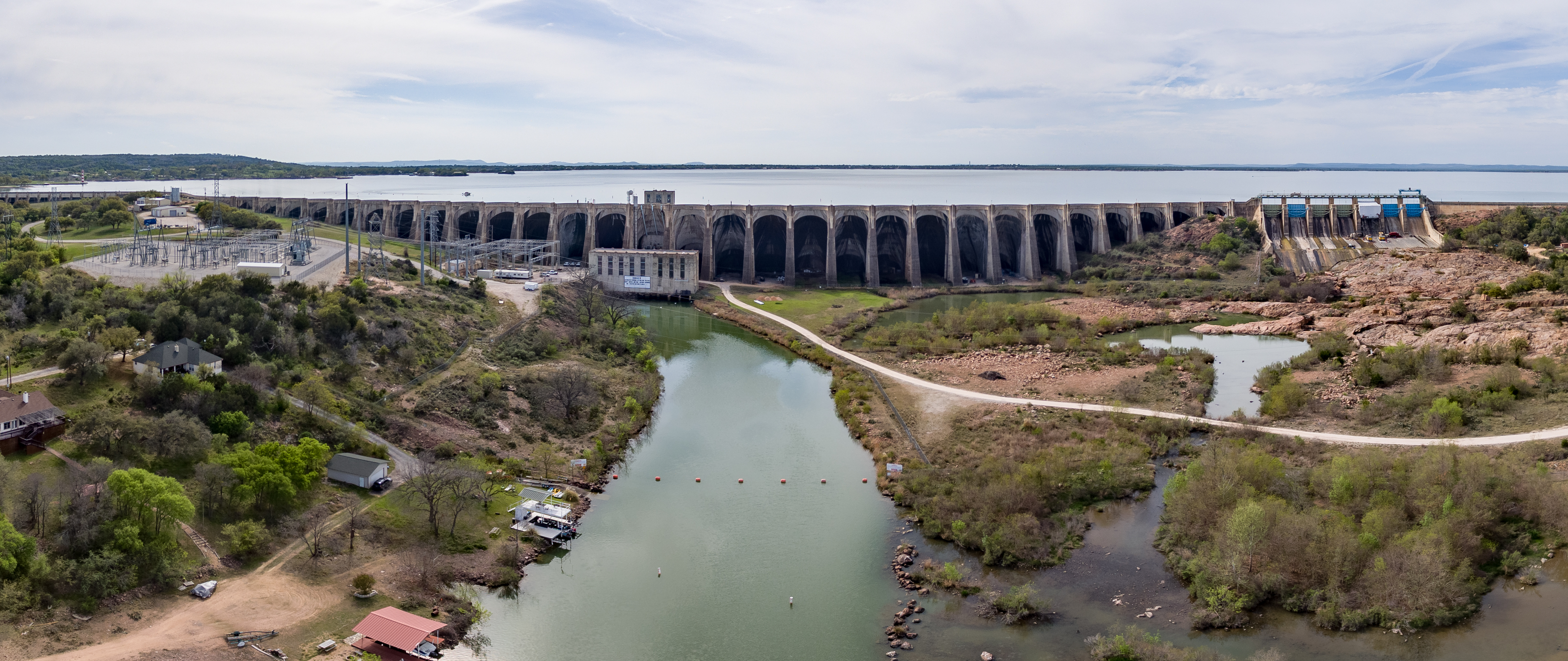 A view of Buchanan Dam, located west of Burnet, Texas, showing the arched structure, floodgates, the power house and electrical yard.